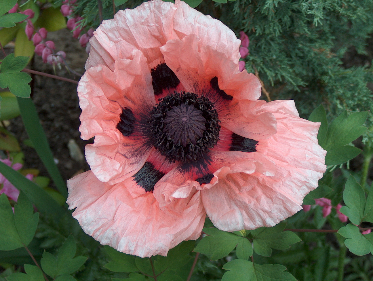 Aerial view of a salmon-coloured Oriental Poppy (Papaver orientale).